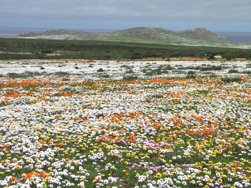 Namaqualand daisies in spring